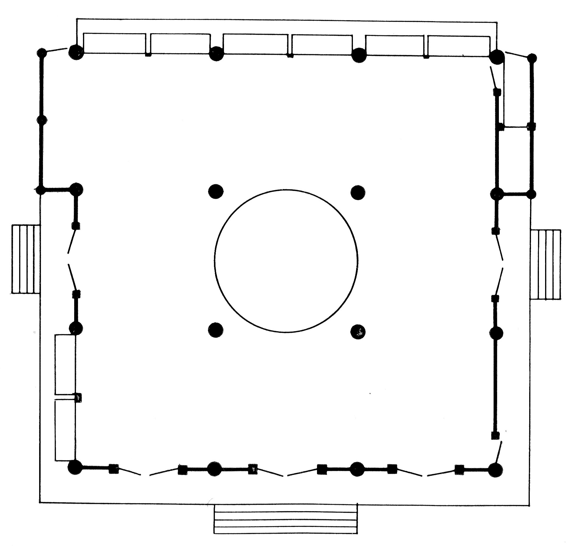 Layout of Jôdo-Hall of Jôdo-ji (Hyôgo Prefecture)